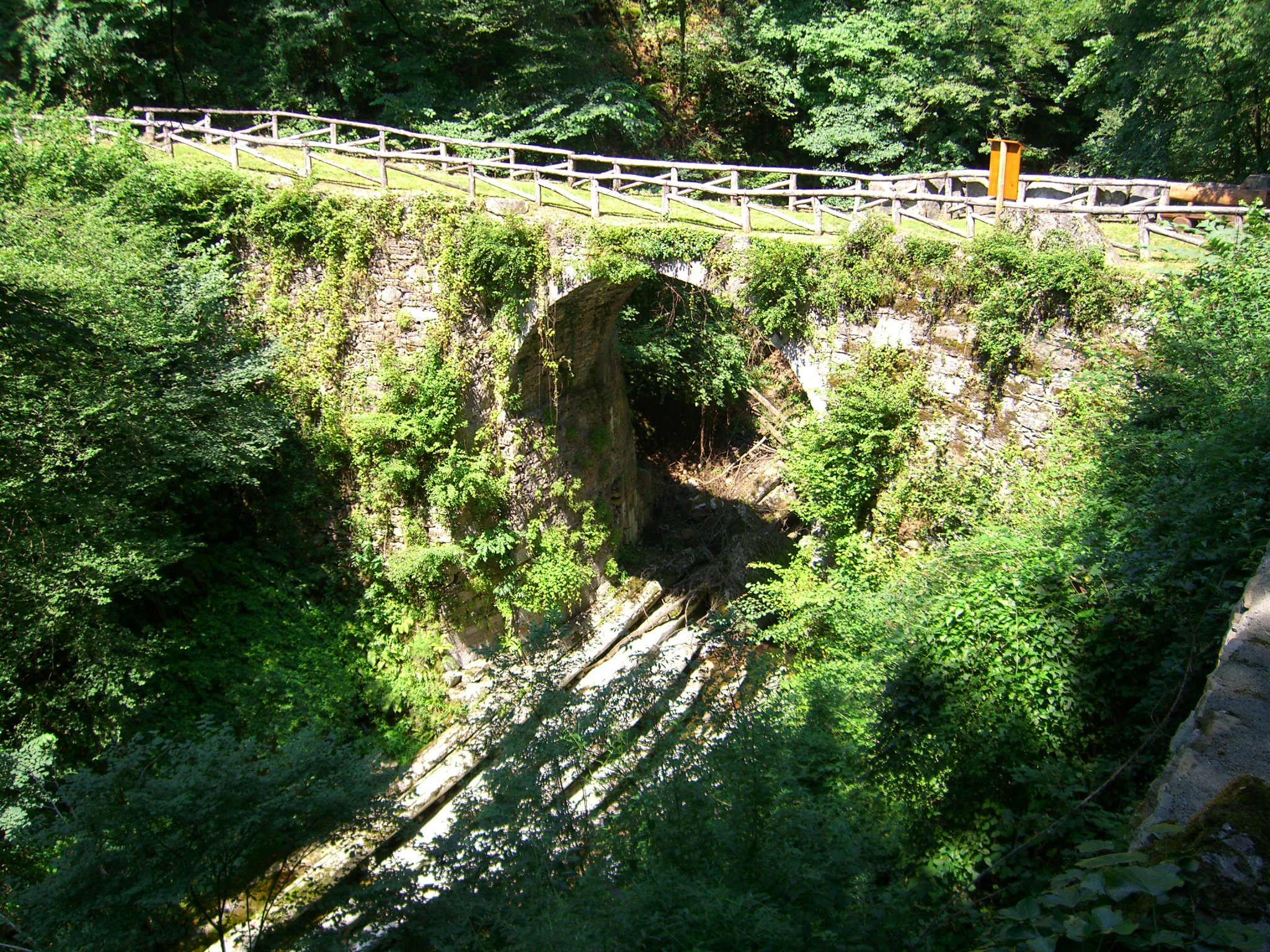 Bridge over Breggia river, Ticino, Switzerland